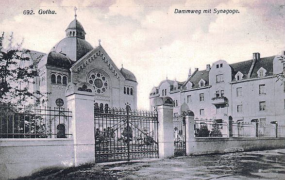 Synagogue of Gotha, built in 1904, destroyed by the nazis in 1938